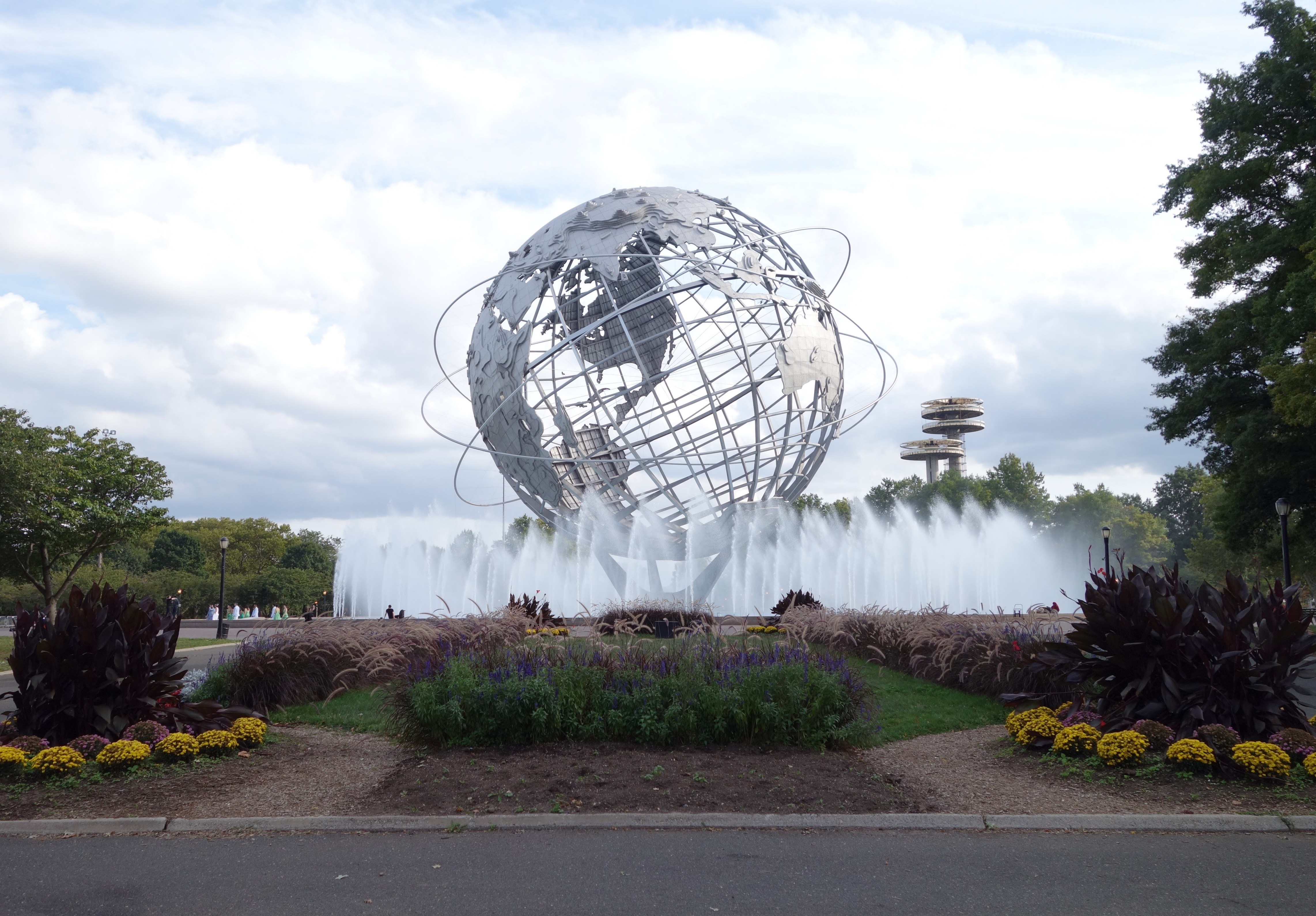 View of the Unisphere and Park in September 2015.